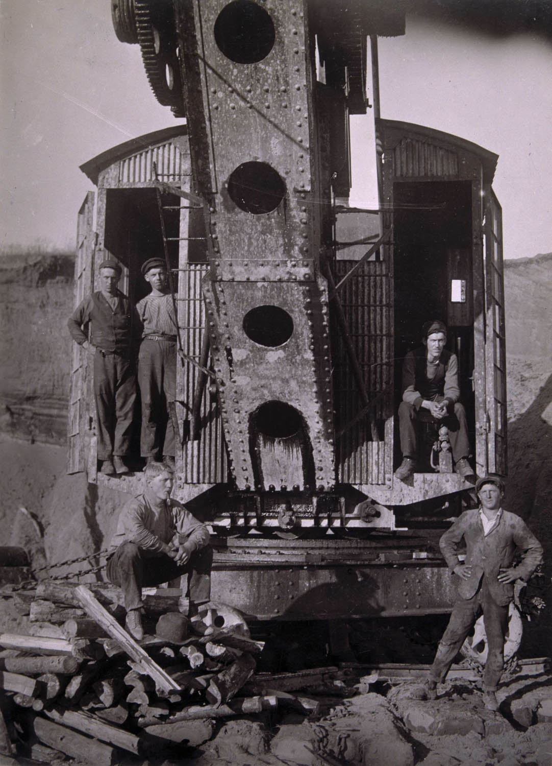 Depicted person: N A Hedlund, Grävmaskinist Depicted place: Medelpad, Njurunda (Sverige (SE))